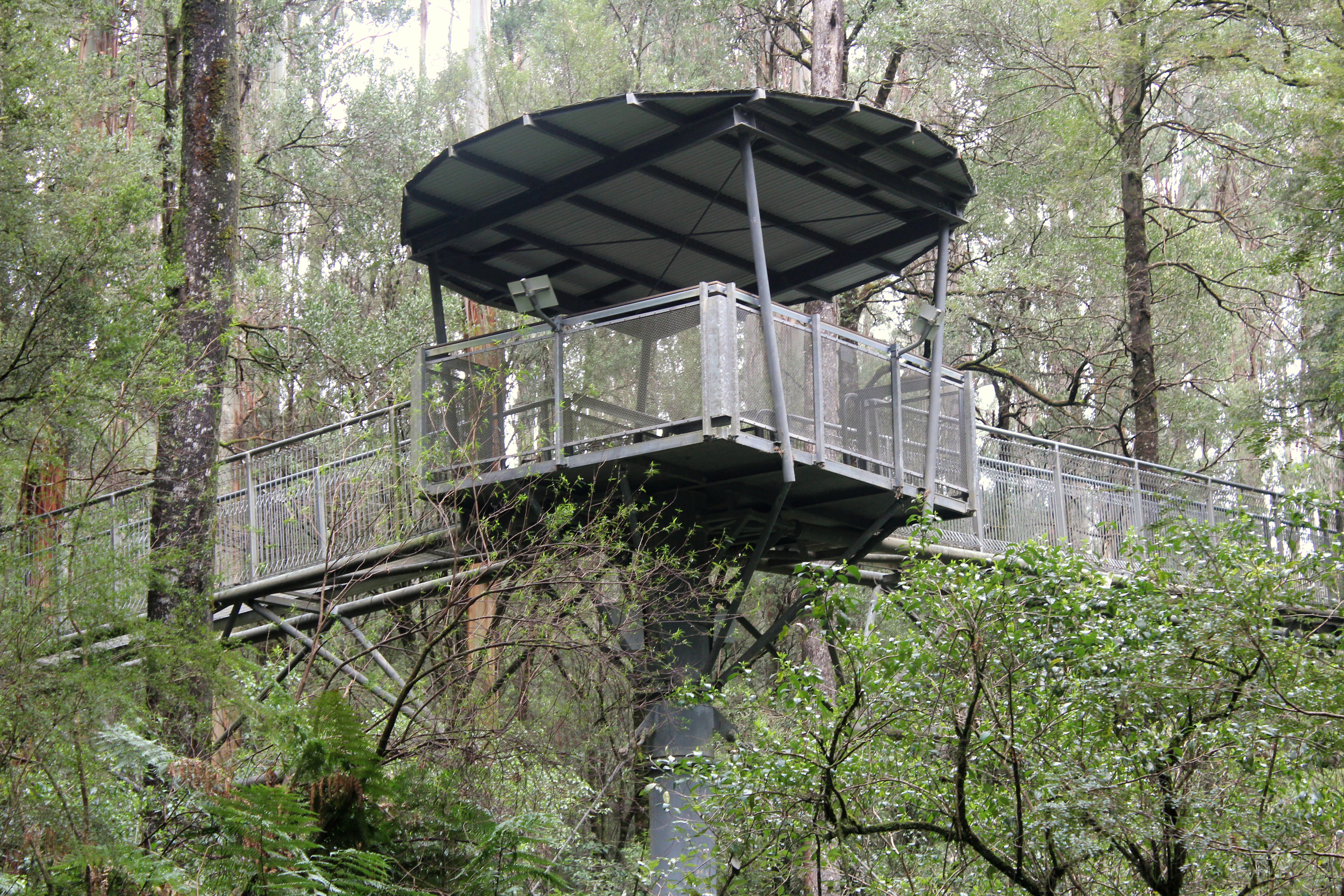 Tower T1 on the canopy walkway through the rainforest at Great Otway National park, Australia. The walkway is 600 metres in length and up to 25 metres above the forest floor.